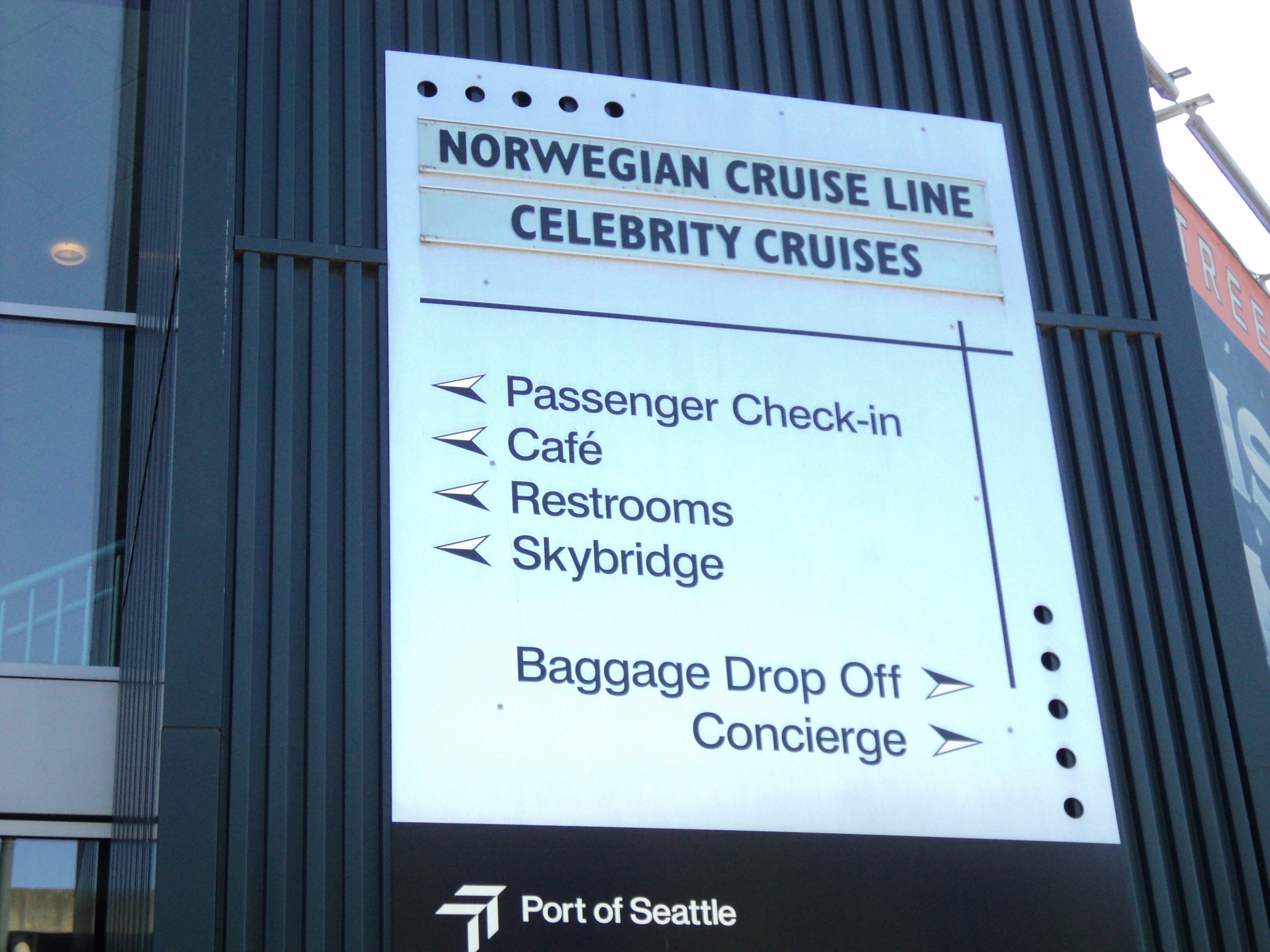 View of the Norwegian Cruise Line and Celebrity Cruises passenger embarkation terminal, Port of Seattle, downtown Seattle, Washington, on Alaskan Way.